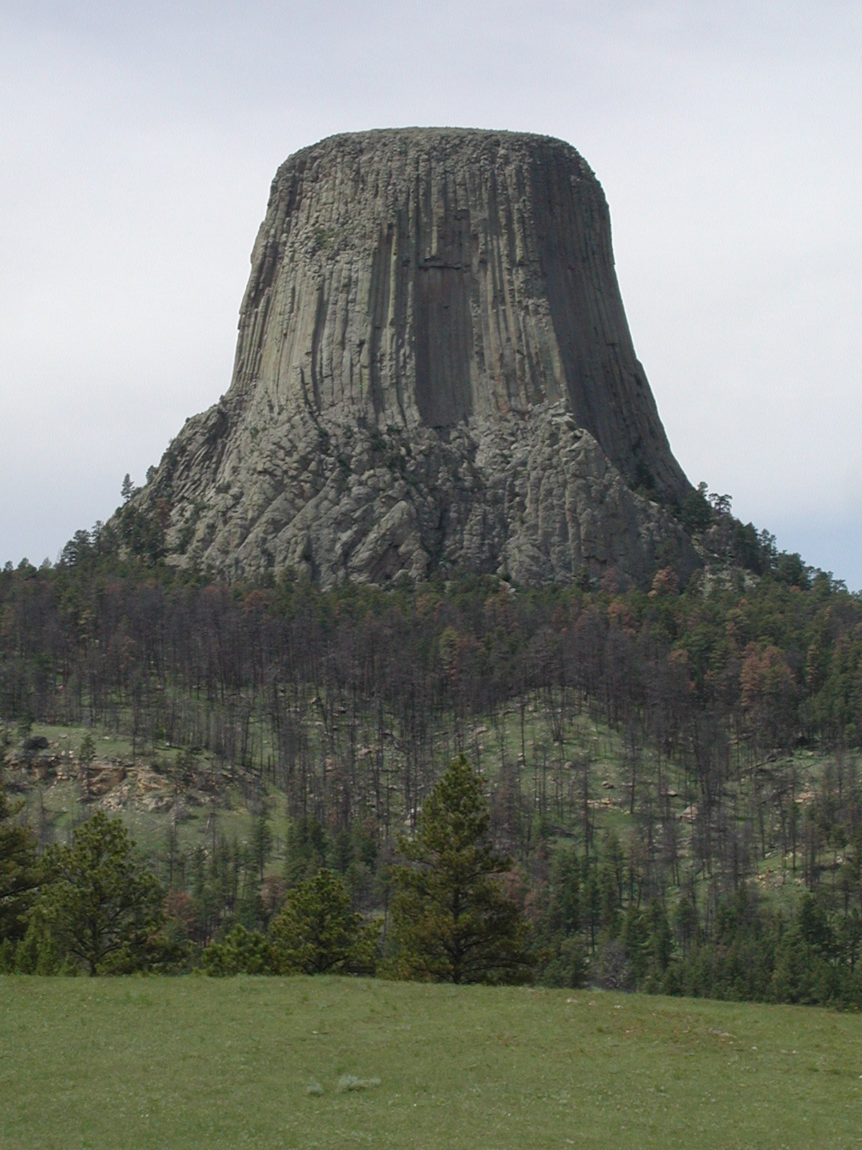 Mato Tipila (Devils Tower) at Devils Tower National Monument in Wyoming, USAMato_Tipila